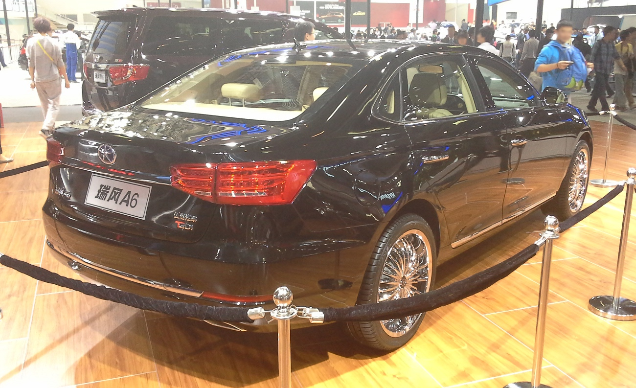 JAC Refine A6 Concept photographed at the Auto China 2014, Beijing, China.